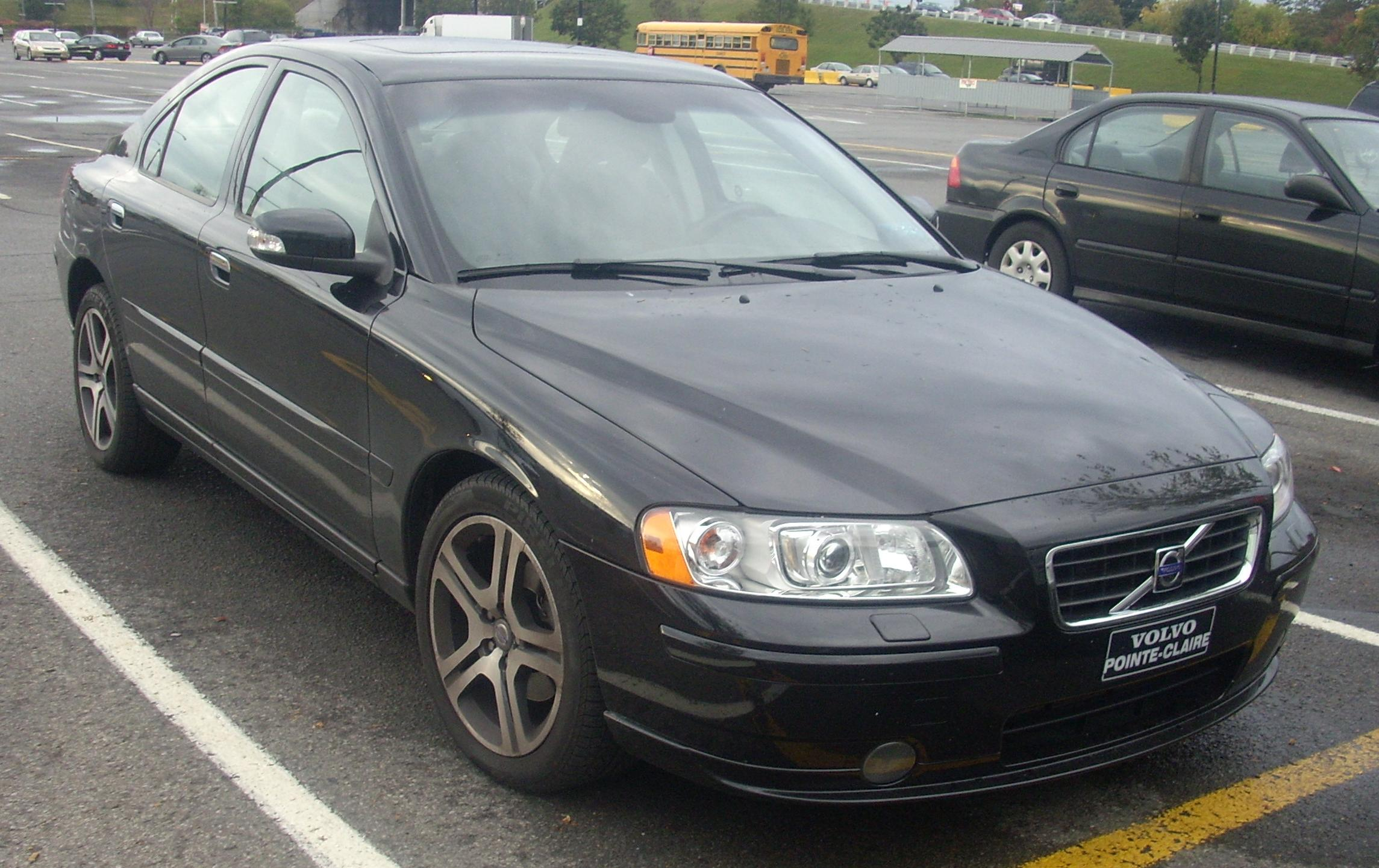 2005-2008 Volvo S60 photographed in Montreal, Quebec, Canada.